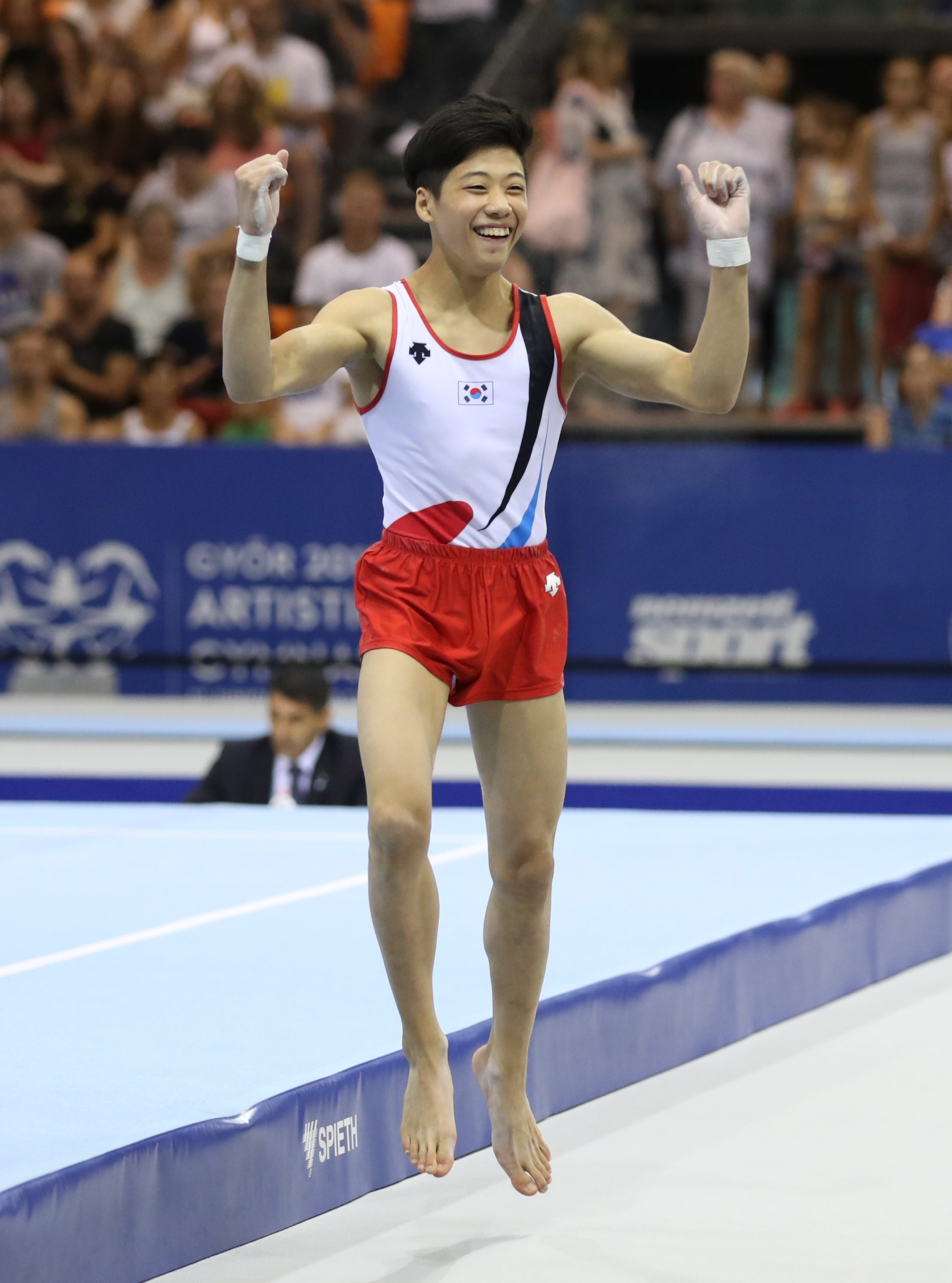 Floor exercise during the boys' apparatus finals at the 1st FIG Artistic Gymnastics Junior World Championships on 29 June 2019 in Győr, Hungary. Depicted: Sunghyun Ryu.